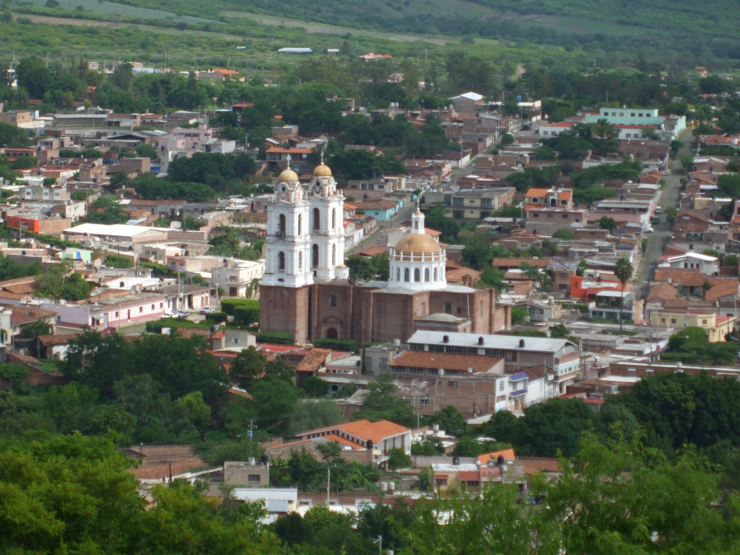 Juchitlan